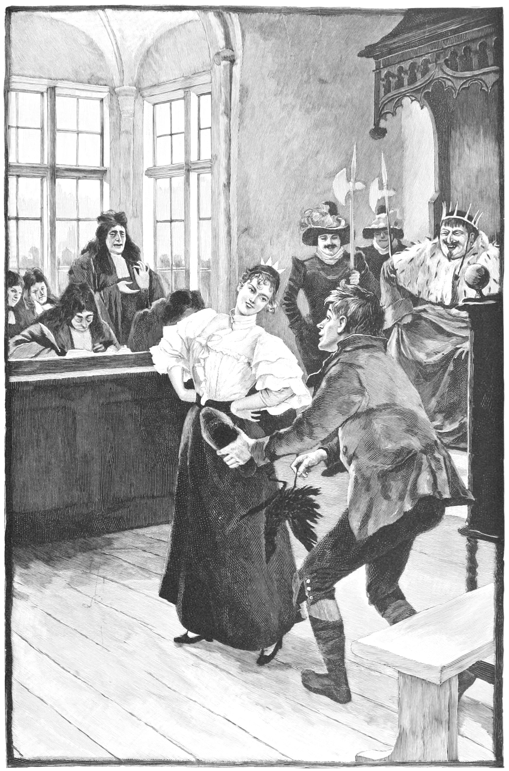 Scan of illustration in Fairy tales and stories (1900). Andersen, H. C. (Hans Christian), 1805-1875; Tegner, Hans, b. 1853, ill; Brækstad, H. L. (Hans Lien), 1845-1915 New York: The Century Co.